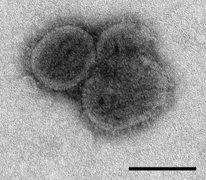 Electron microscopic images of novel Thogotovirus isolate, Bourbon virus. Spherical virus particles with distinct surface projection are visible in culture supernatant that was fixed in 2.5% paraformaldehyde. Scale bar indicates 100 nm. Figure 2b from Kosoy OI, Lambert AJ, Hawkinson DJ, et al. (2015) Novel Thogotovirus species associated with febrile illness and death, United States, 2014. Emerging Infectious Diseases